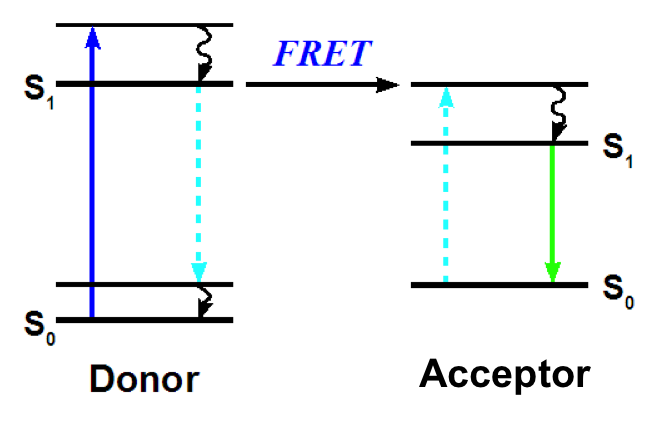 FRET Jablonski diagram in English.